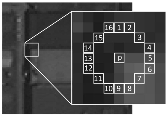 An illustration of the pixels used by the FAST Corner Detection algorithm